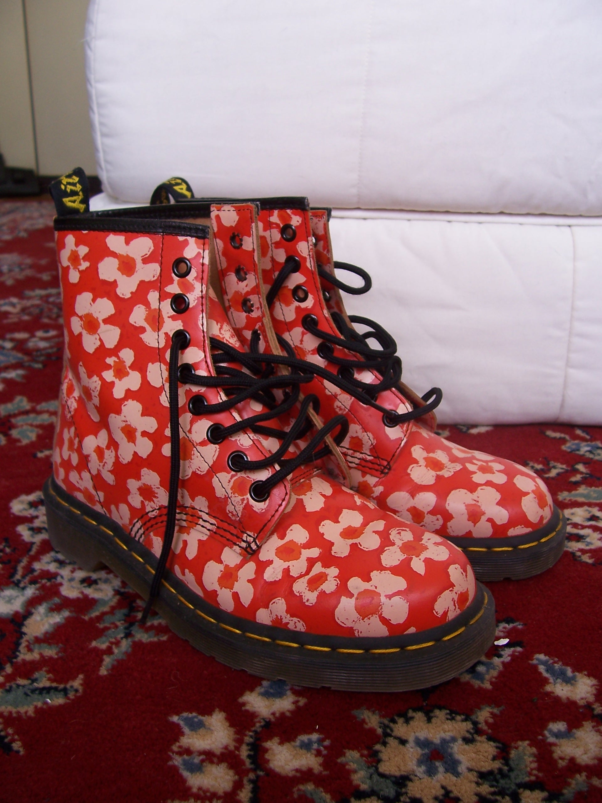 Dr. Martens flowers